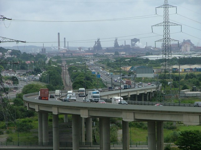 The M4 at Baglan Viewed from the Warren Hill